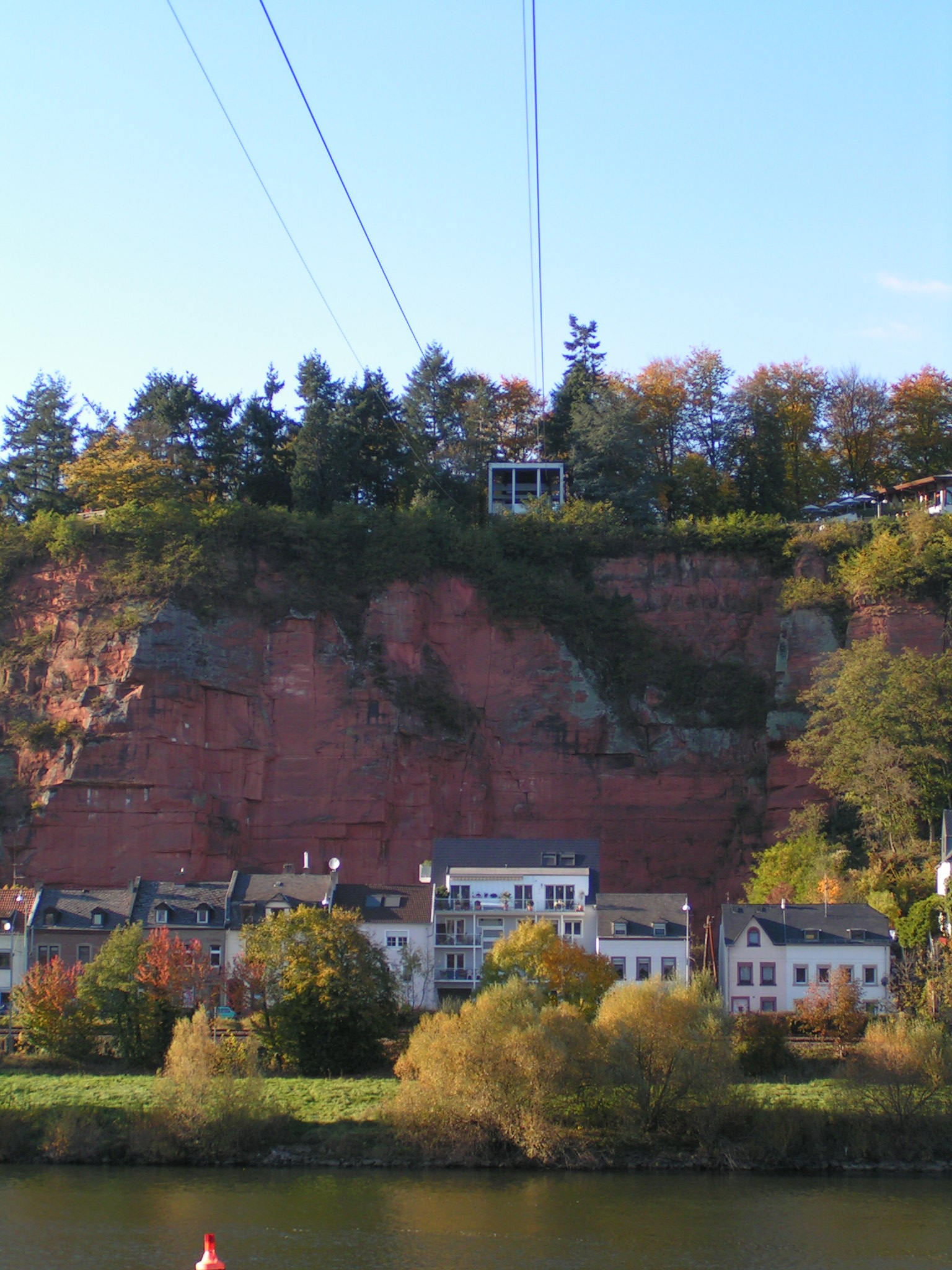 Kabinenbahn, Trier, Germany